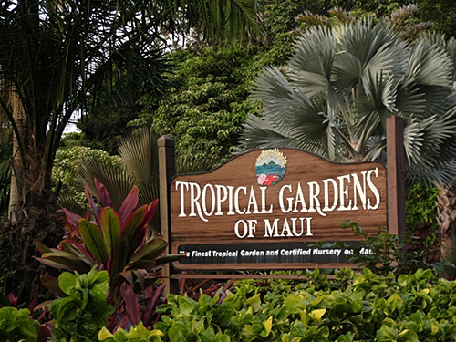 iy4003 wailuku ioa valley maui hi hawaii tropical gardens of maui